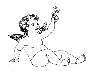 line art drawing of a putti.